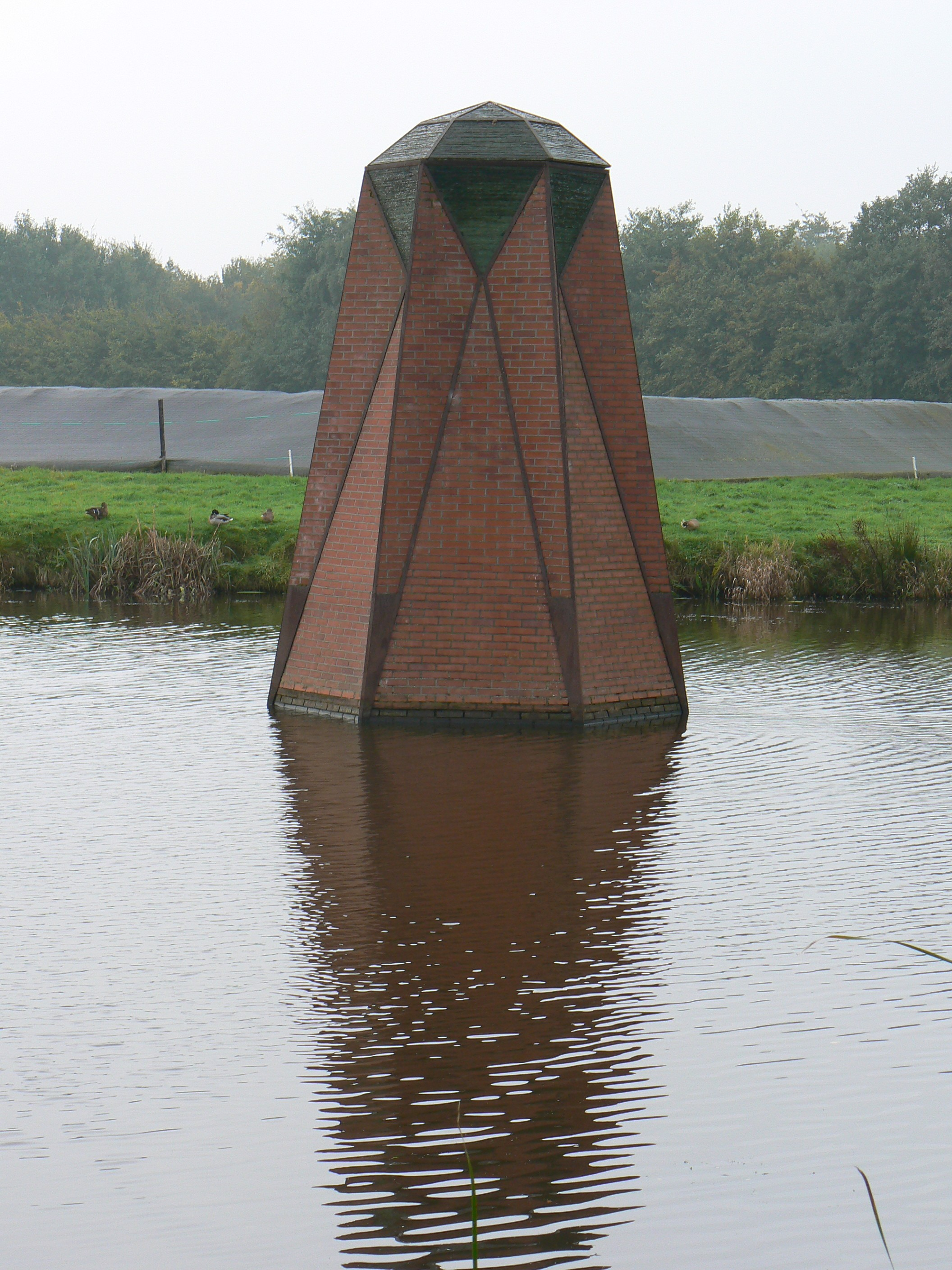 sculpture Untitled (1994) by Gerlof Hamersma in Sappemeer/The Netherlands